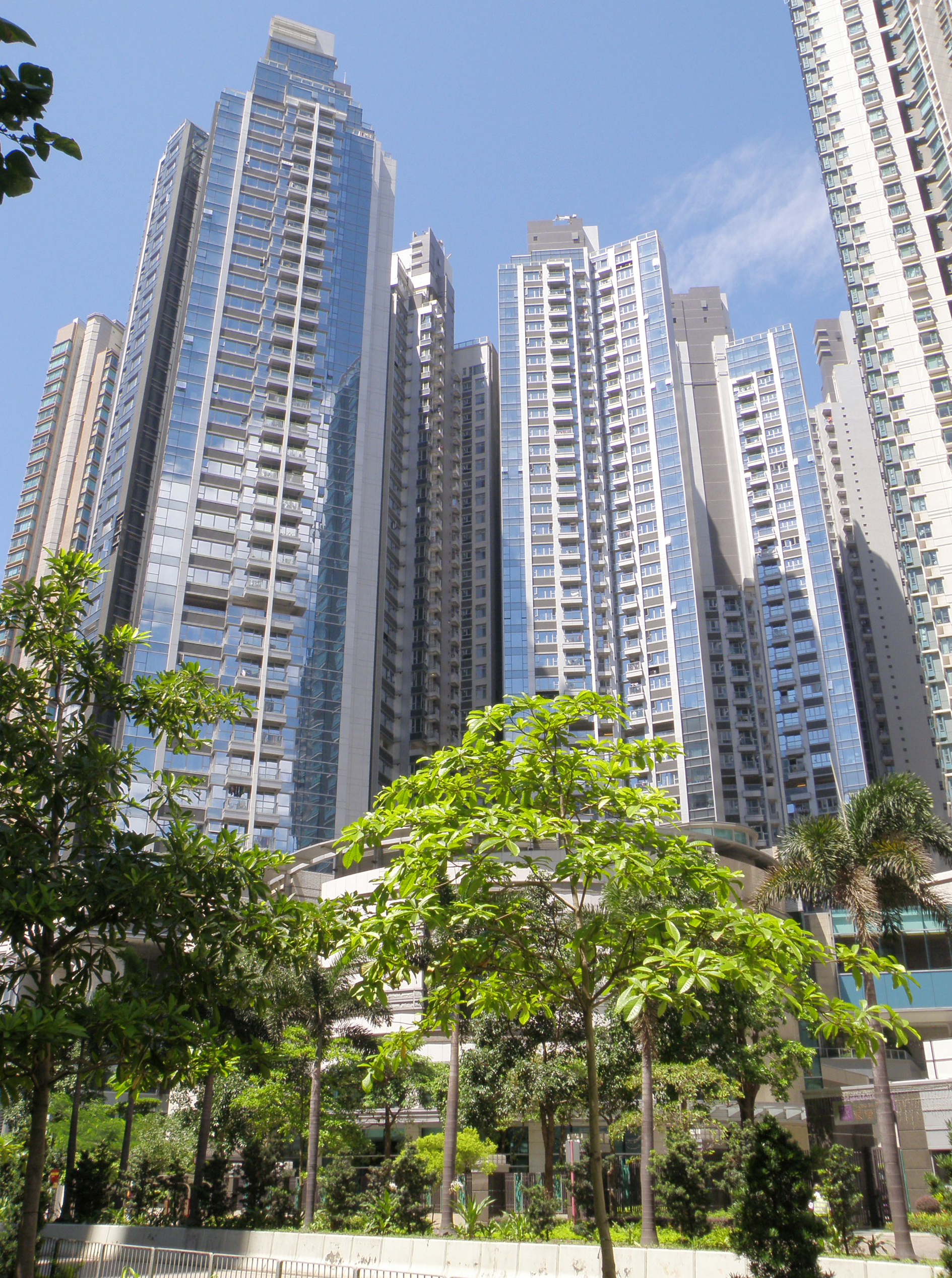 Imperial Cullinan in Tai Kok Tsui, Hong Kong.